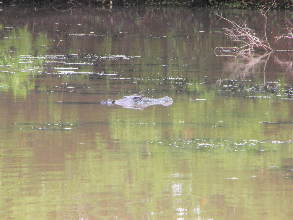 Kakadu, croc in the river